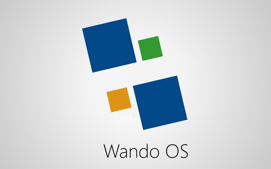 After official Wando OS. Created in 2013